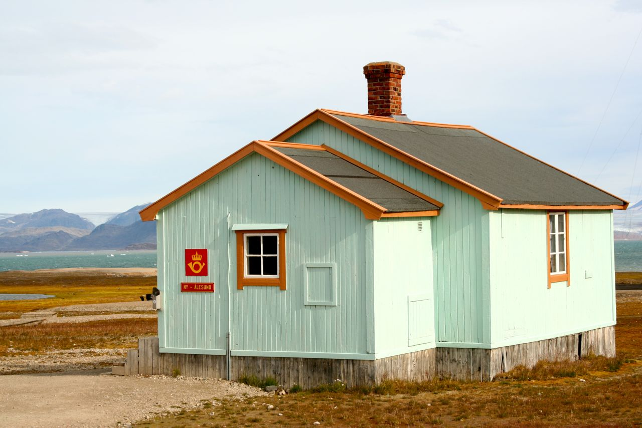 The old post office building in Ny-Ålesund, Spitsbergen, Svalbard